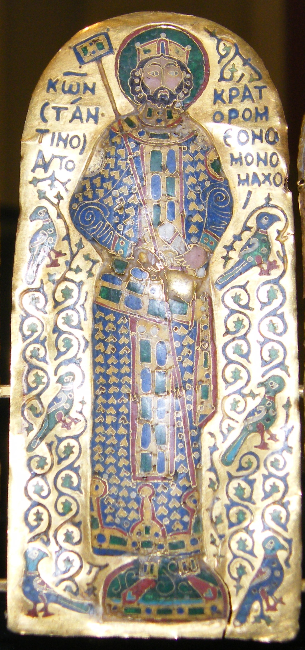 Byzantine enamel plaques probably parts of a crown representing the emperor Constentine IX Monomachos (1042 - 1056), the Empress Zoe and her sister Theodora.